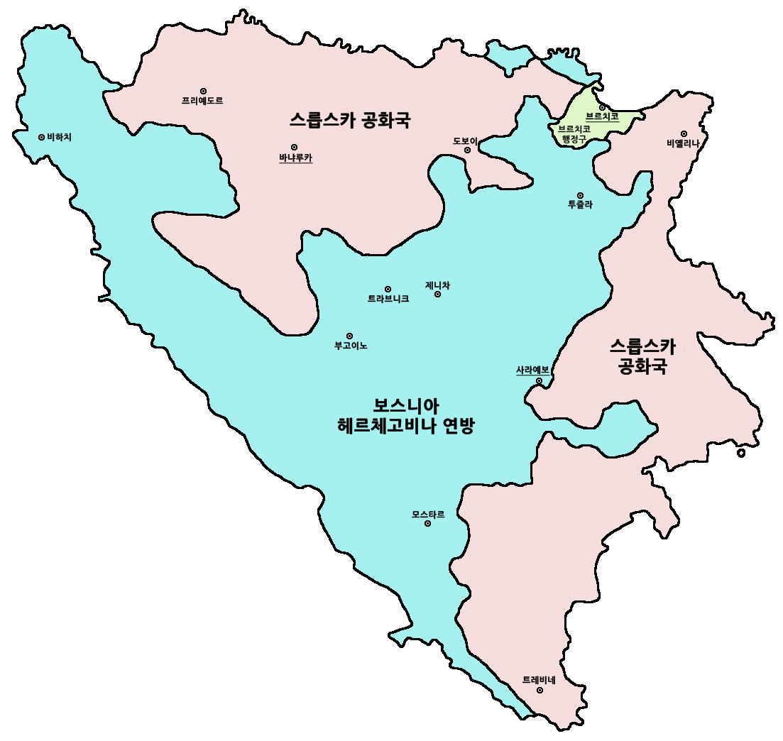 Federation of Bosnia and Herzegovina, Republika Srpska and Brčko district.